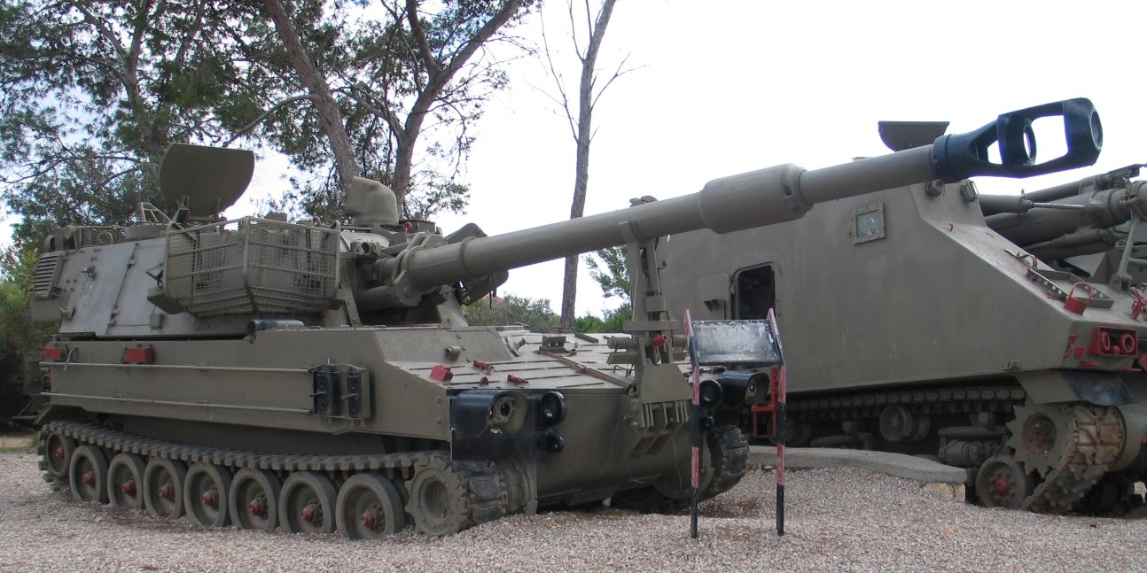 Description: US M109 155 mm self-propelled howitzer (IDF designation "Rokhev") in Beyt ha-Totchan, Zichron Yaakov, Israel. 2005. Source: Photo by me, User:Bukvoed.